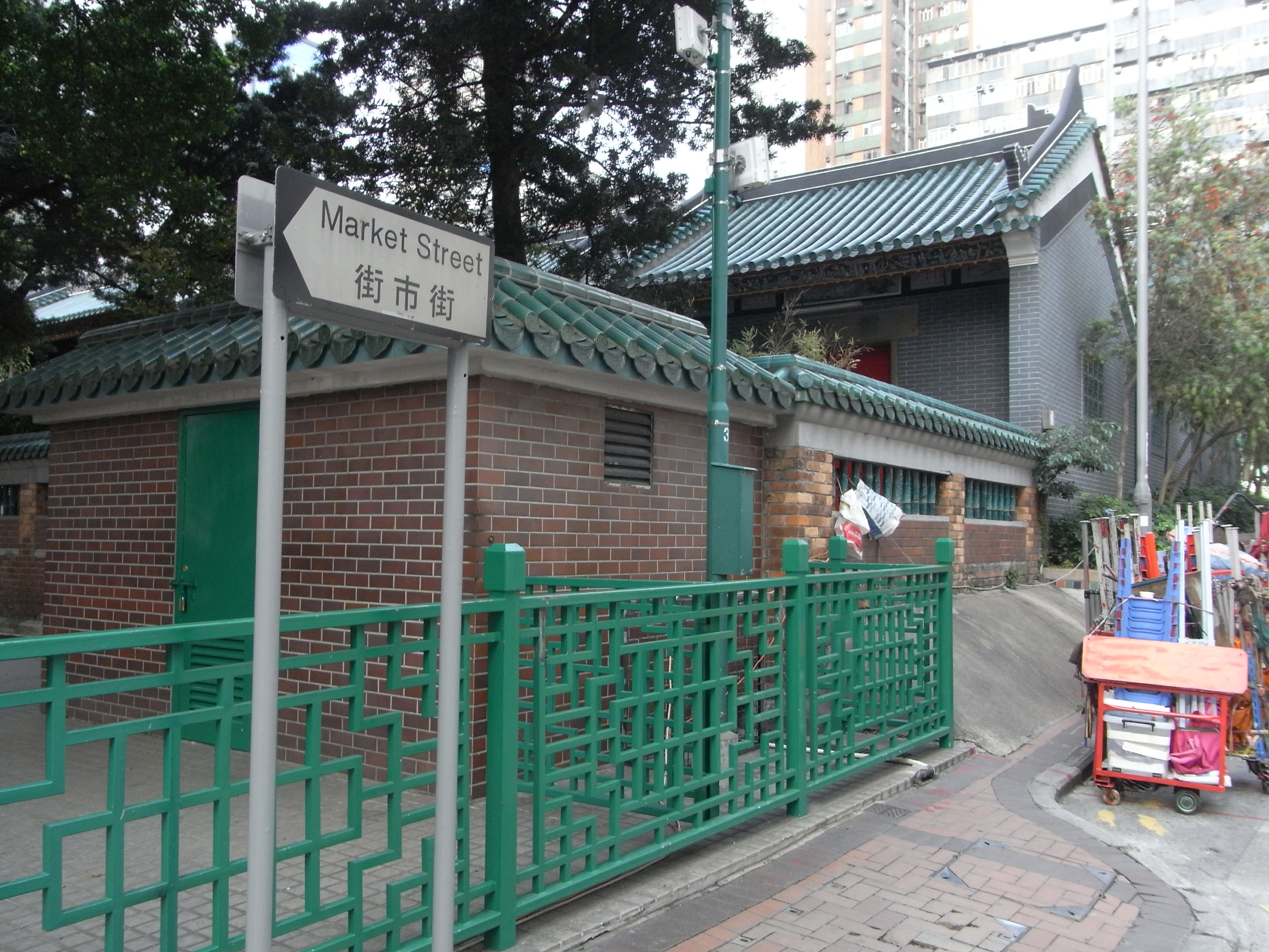 油麻地 街市街 油麻地社區中心休憩花園 & 油麻地天后廟